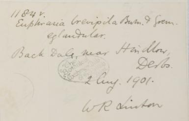 Handwriting source of Rev. William Richardson Linton.